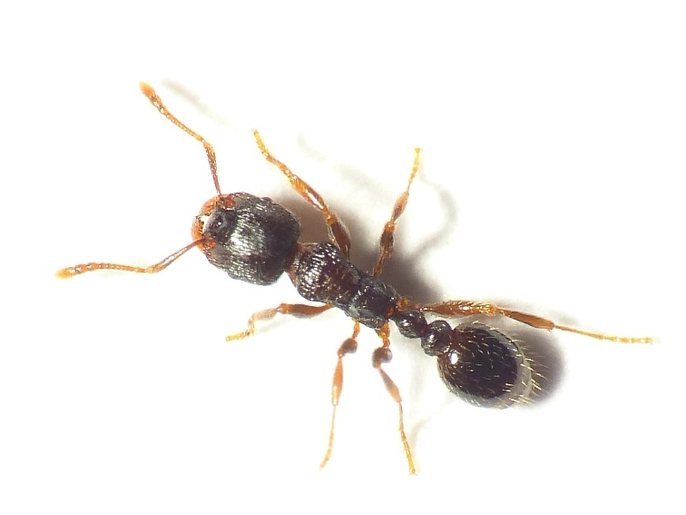 Tetramorium caespitum, location: The Netherlands - Renkum - Telefoonweg